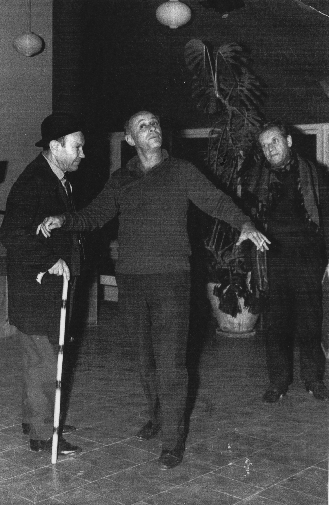 This picture was given to me by the family of Shmuel Bunuim to use in Wikipedia as Public Domain